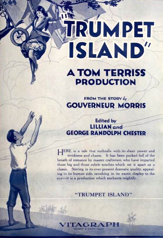 Advertisement for the American drama film Trumpet Island (1920), from the insert after page 10 of the September 18, 1920 Exhibitors Herald. The ad is unusual in that the man reaching out and ready to catch the woman hanging from the tree limb is placed where he can look up her dress, which is shown to be blown up to mid-thigh. Consistent with this, the text in the ad notes that the film is "ravishing in its exotic display to the eye."